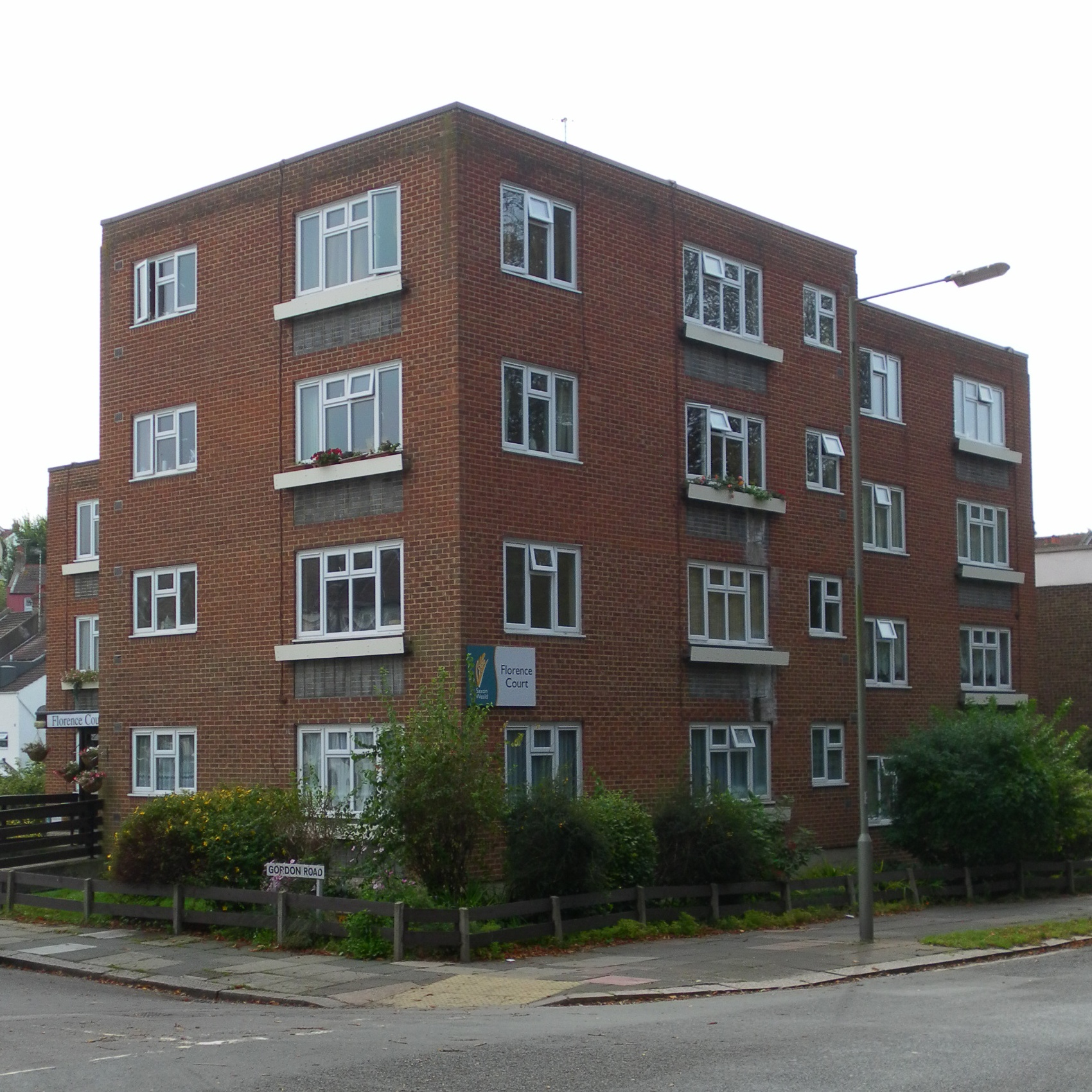 Florence Court, Surrenden Road, Preston Park, City of Brighton and Hove, England. A 1980s residential development on the site of the former Horeb Tabernacle (also known as Preston Park Baptist Church).